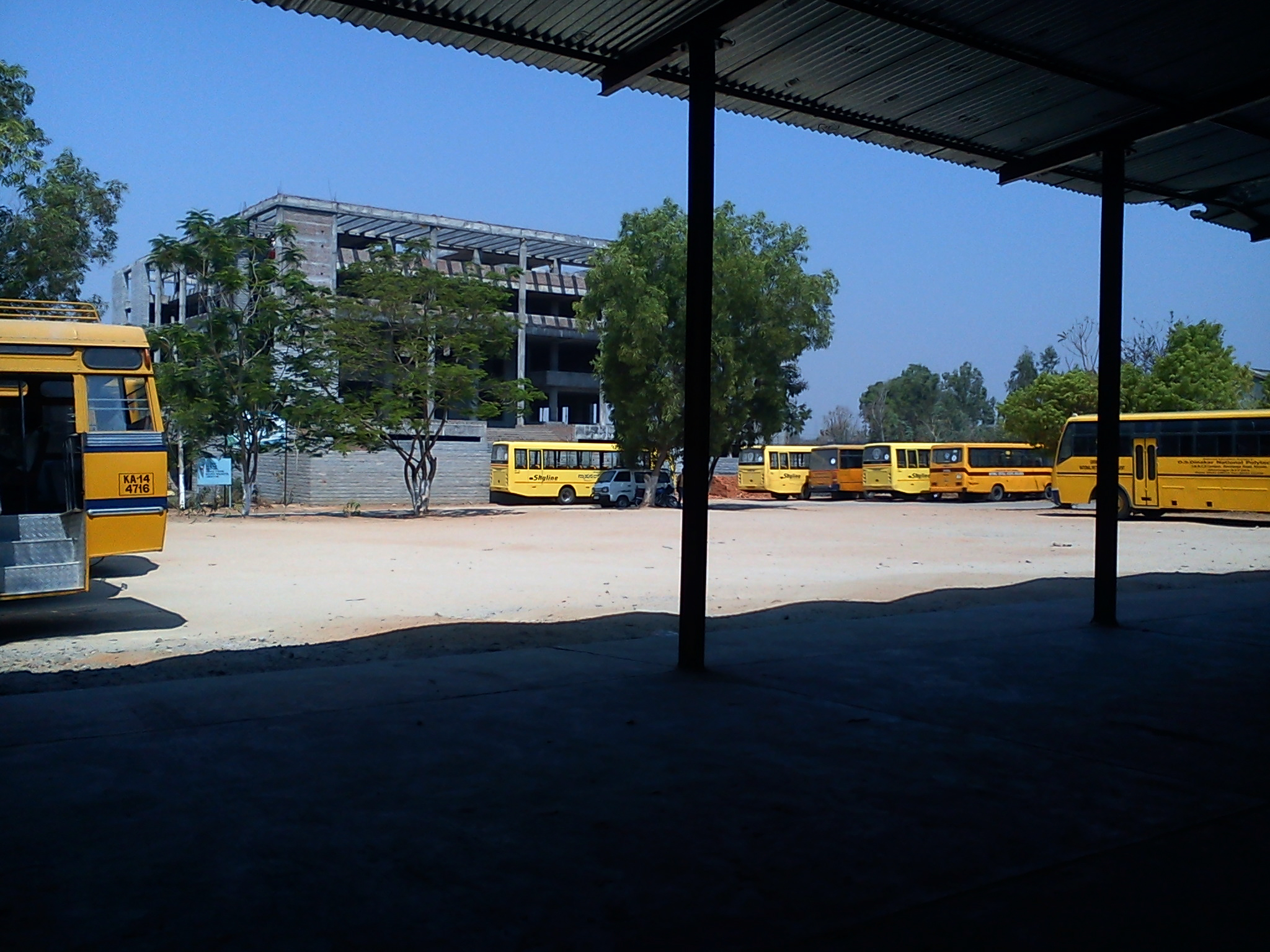 This is a view of new library building and the college buses as seen from bus shelter (Jawaharlal Nehru National College of Engineering)